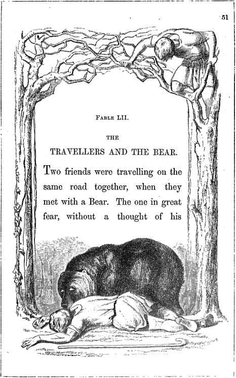 A page from the Thomas James edition of 1848, illustrated by John Tenniel